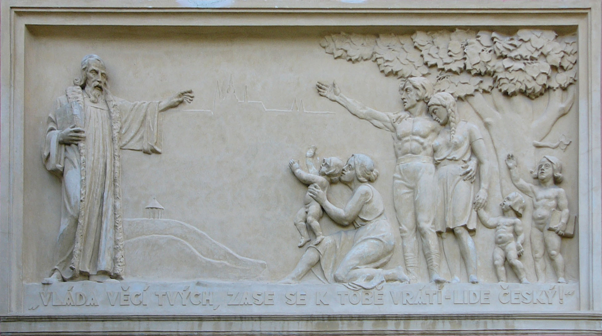 Comenius on relief at school building in Dolany (Czech Republic). Text in Czech language: „Vláda věcí Tvých, zase se k Tobě vrátí — lide český!“